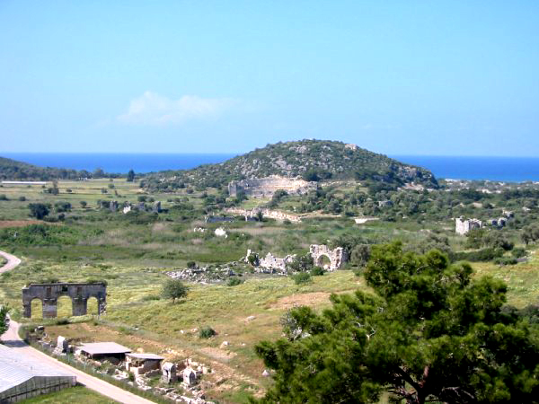 Taken by me early May 2006 at Patara, Turkey